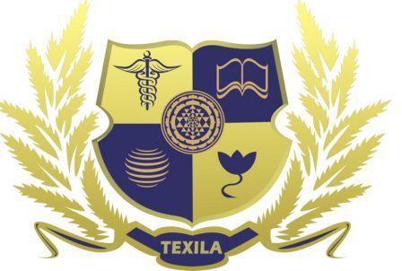 This is the logo of Texila American University